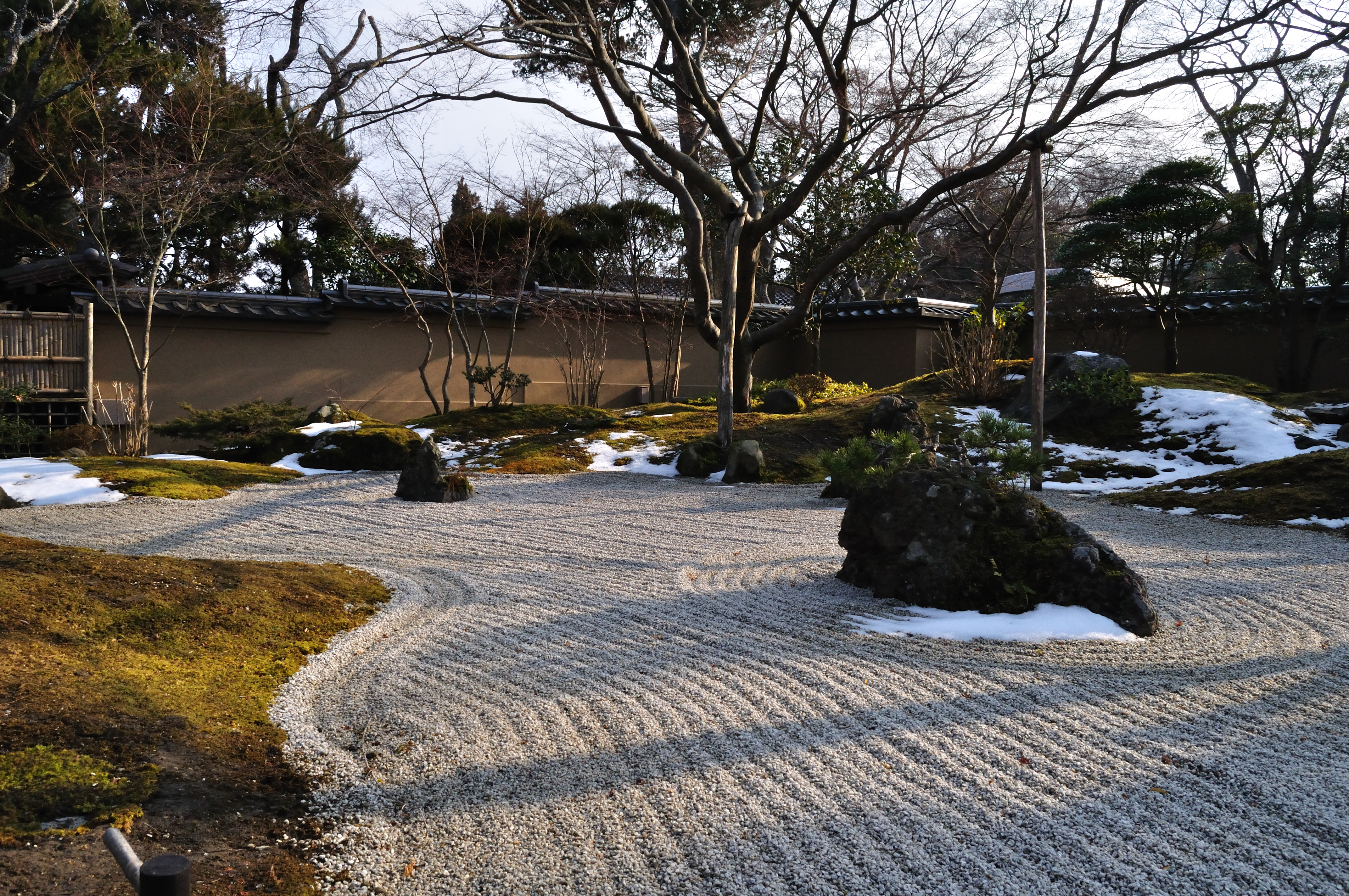 Sekitei Garden of Entsū-in Temple in Matsushima, Miyagi, Japan